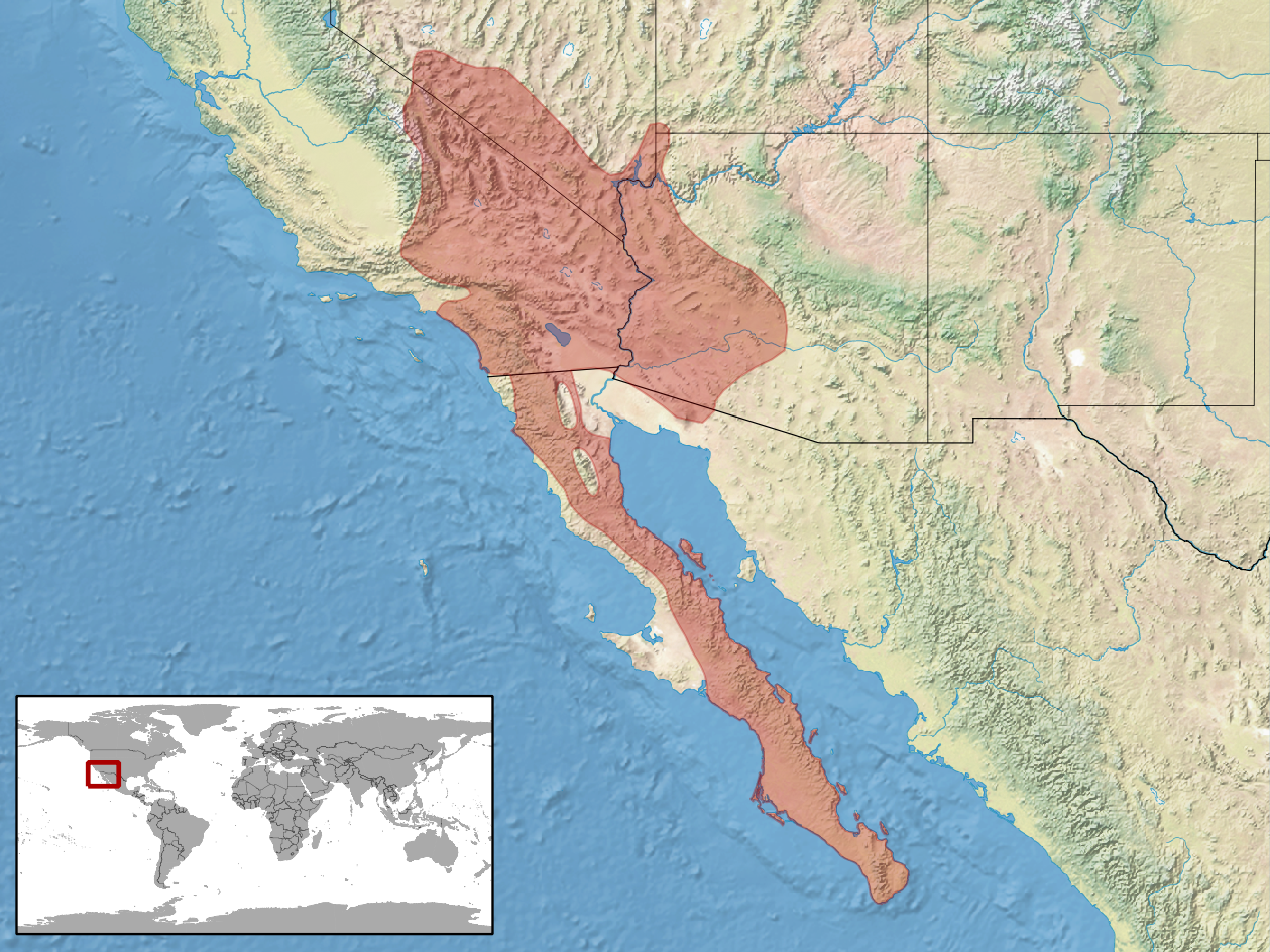 geographic distribution of Crotalus mitchellii (Native: Mexico; United States). classification according to RDB, Crotalus (mitchellii) angelensis and Crotalus (mitchellii) muertensis are recognized as subspecies